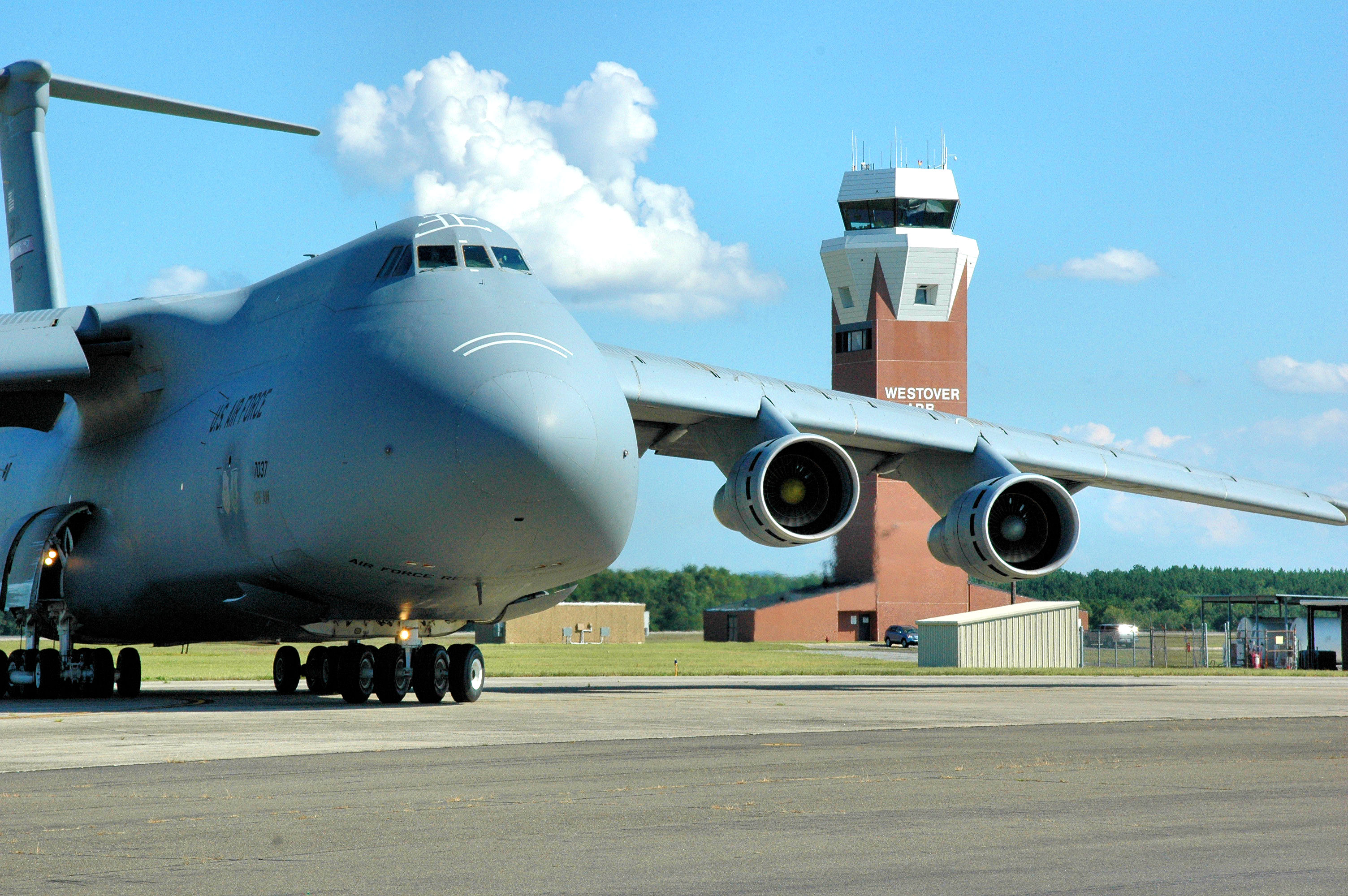 A Westover C-5B Galaxy taxies in from a local training mission. The 439th Airlift Wing, equipped with 16 of the Air Force's largest aircraft, provides a worldwide strategic airlift capability in support of national defense objectives. Also pictured is Westover's control tower, built in 2002. It stands 123 feet high. (US Air Force photo/Tech. Sgt. Andrew Biscoe)